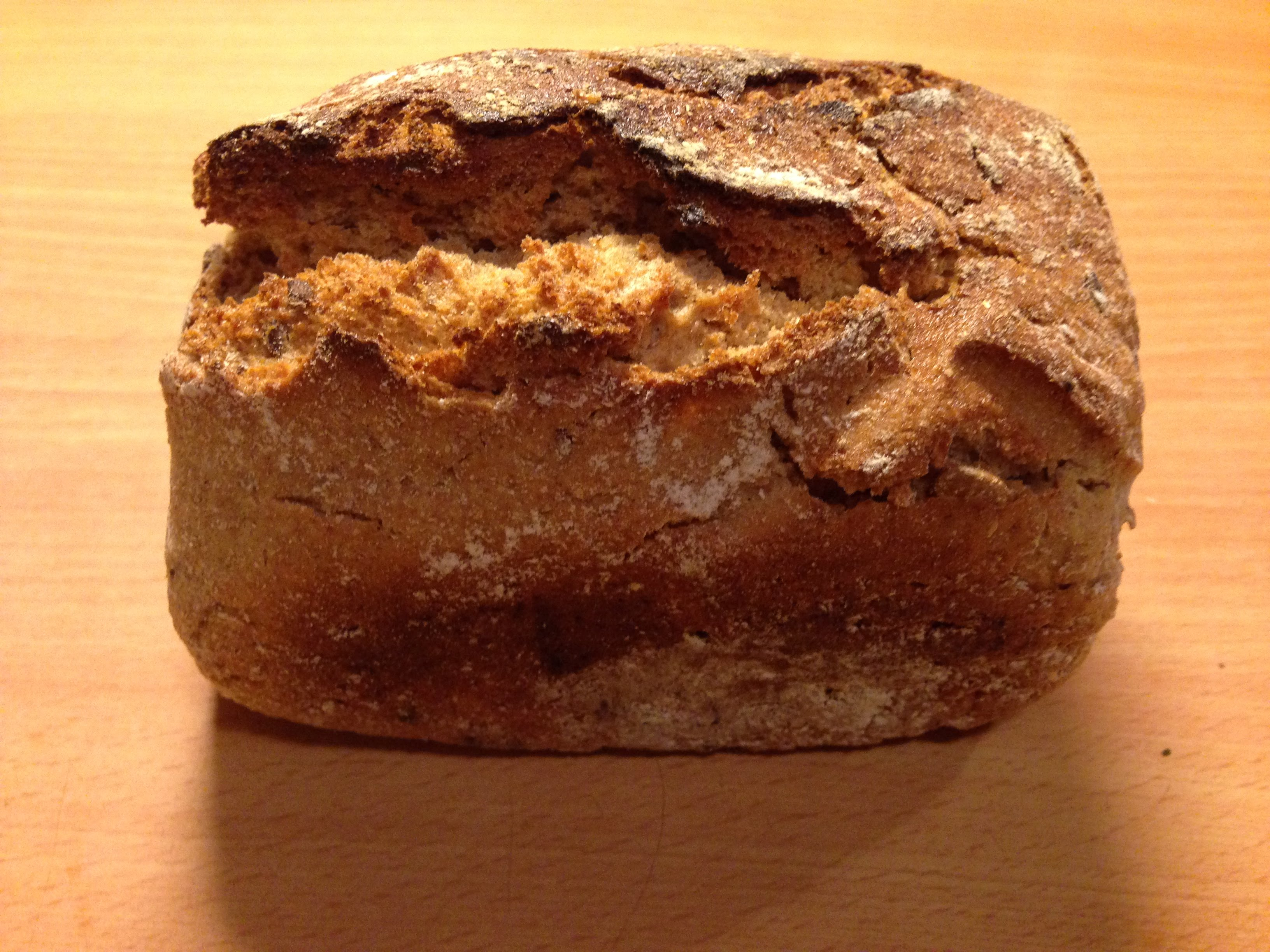 Tain, the bread of the Serbian army in the First World War. Reply from 2018.